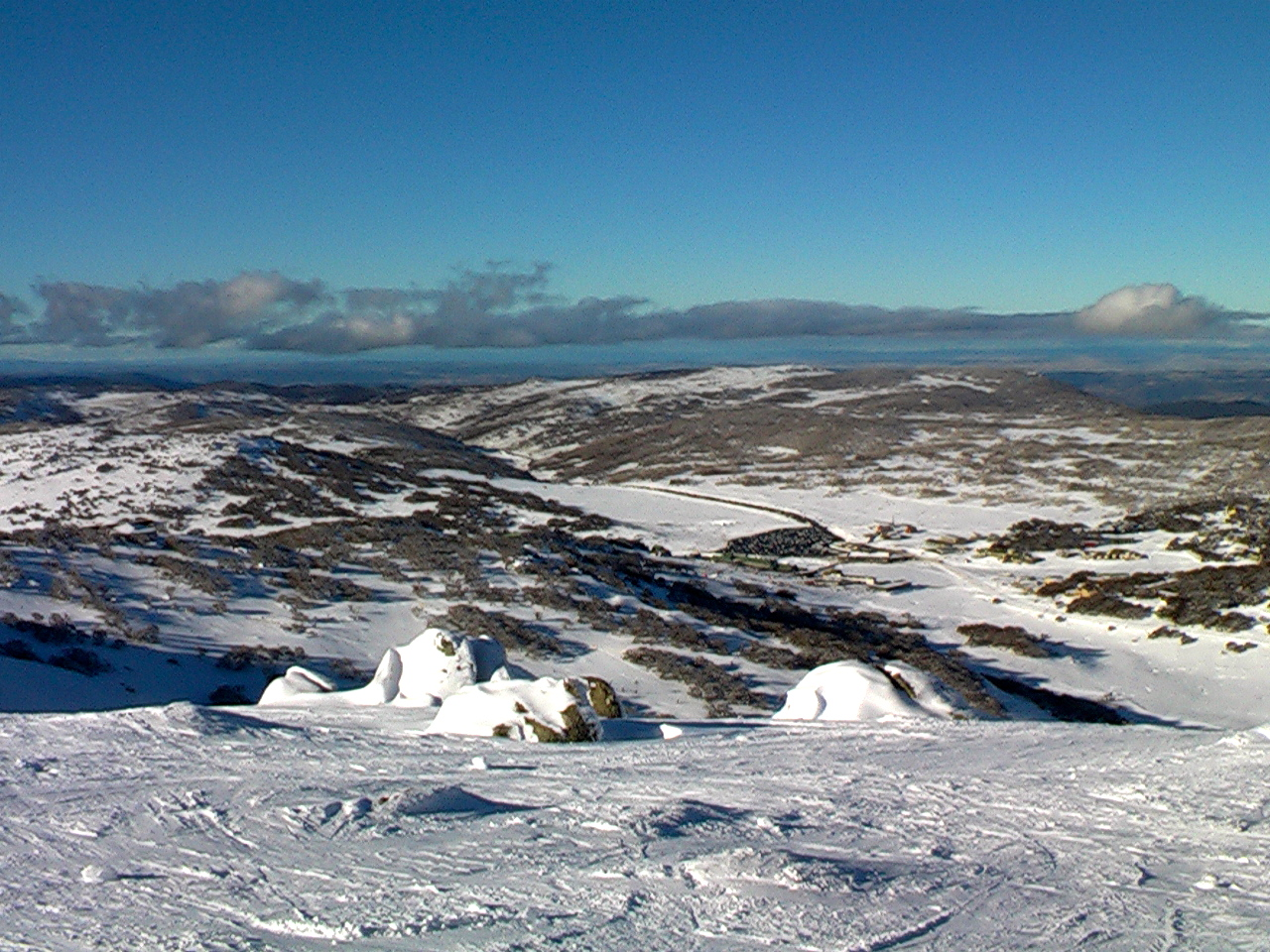 View from near summit of Mount Perisher towards Perisher village and car park. New South Wales, Australia. July 2011.